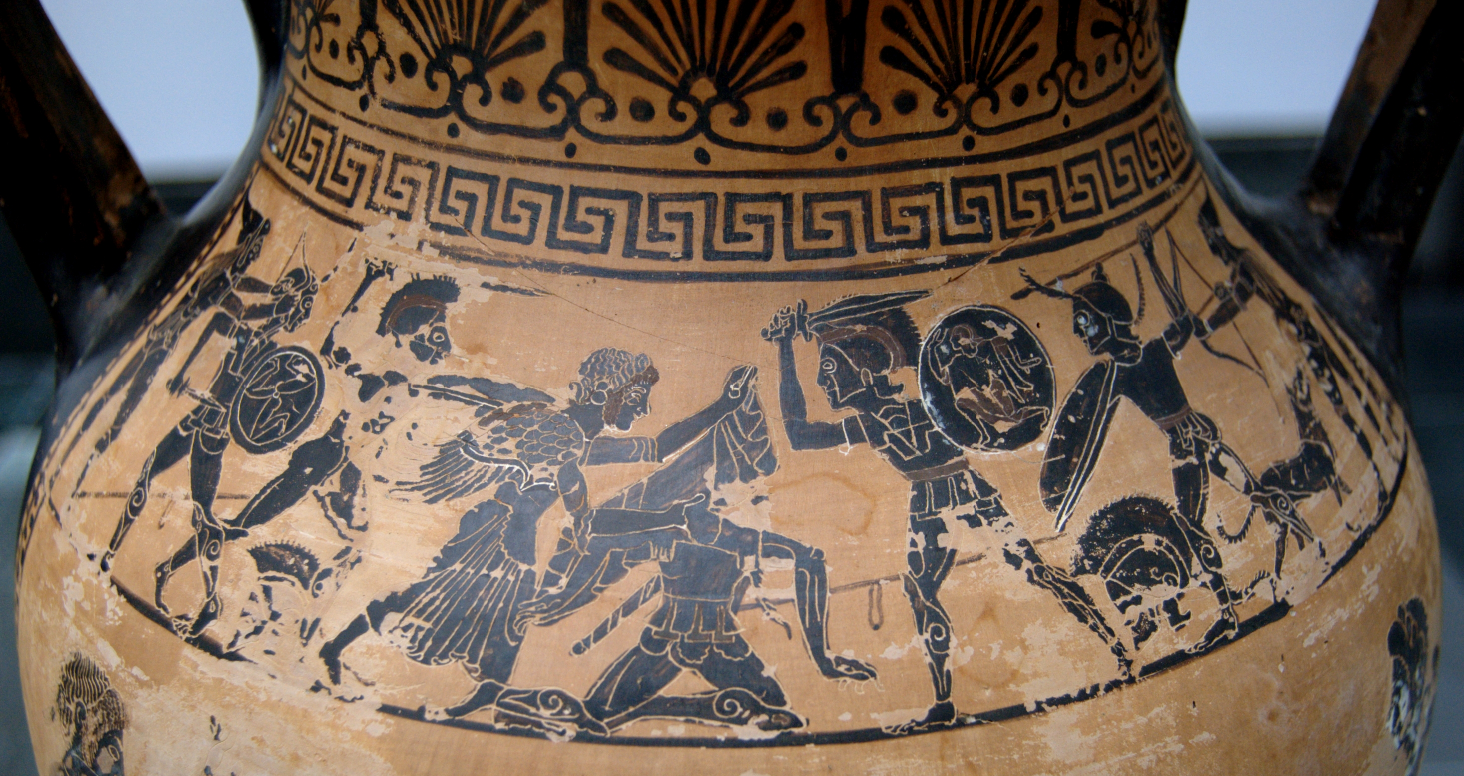 Aphrodite rescuing her son Aeneas wounded in fight, scene from The Iliad. Shoulder of an Etruscan black-figure amphora, ca. 480 BC. Martin-von-Wagner-Museum, L 793 (work on display in the Staatliche Antikensammlungen, room 3, as of Februar 2007).